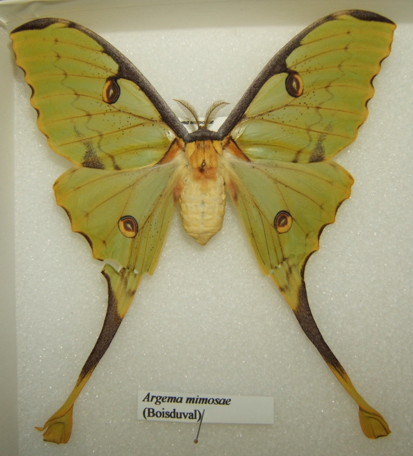 Argema mimosae adult female taken by Shawn Hanrahan at the Texas A&M University Insect Collection in College Station, Texas.